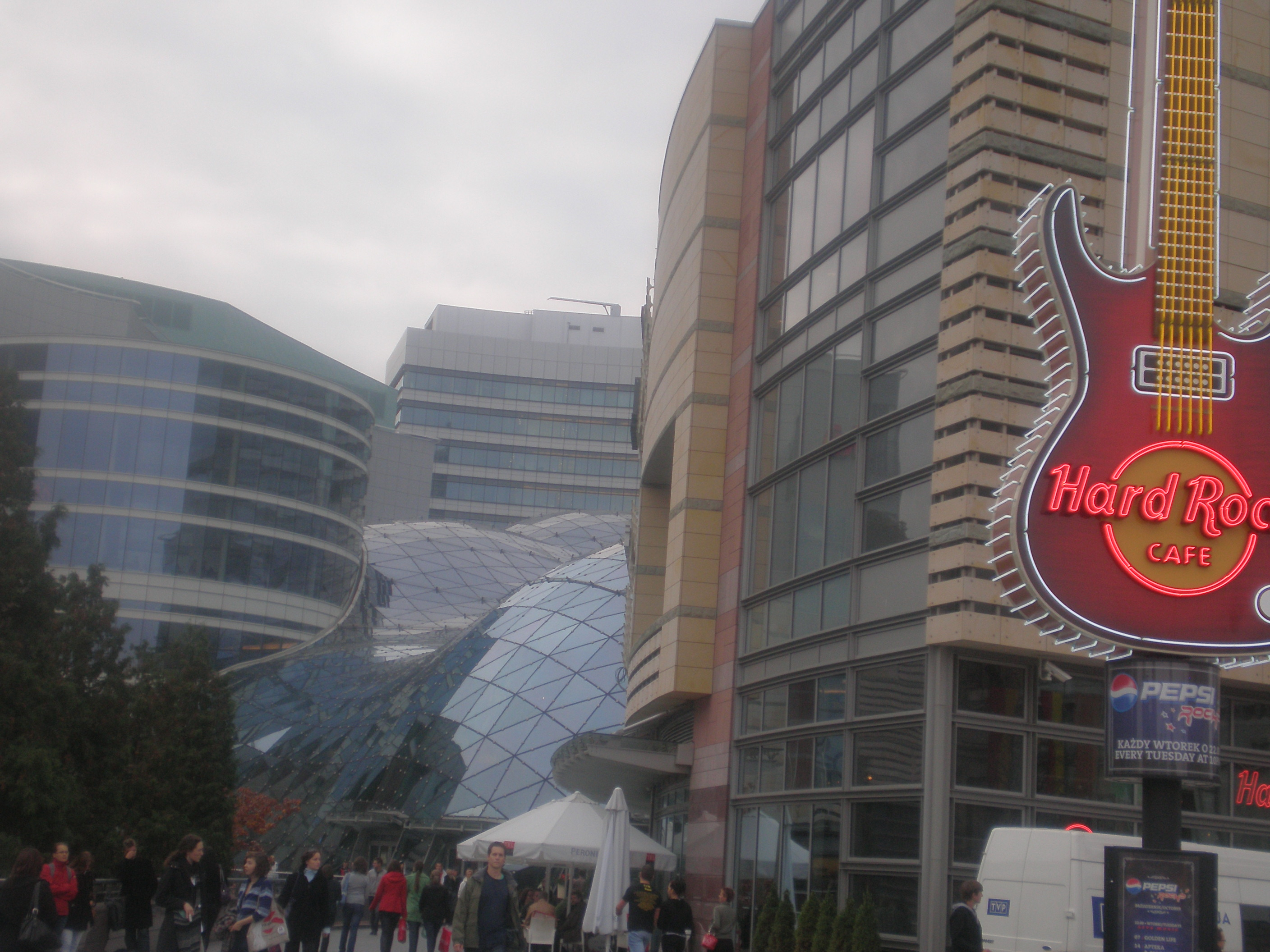 Hard Rock Café Warzsawa, with a shopping centre in the background. Located besides Warzsawa central station and the palace og cultur and science.